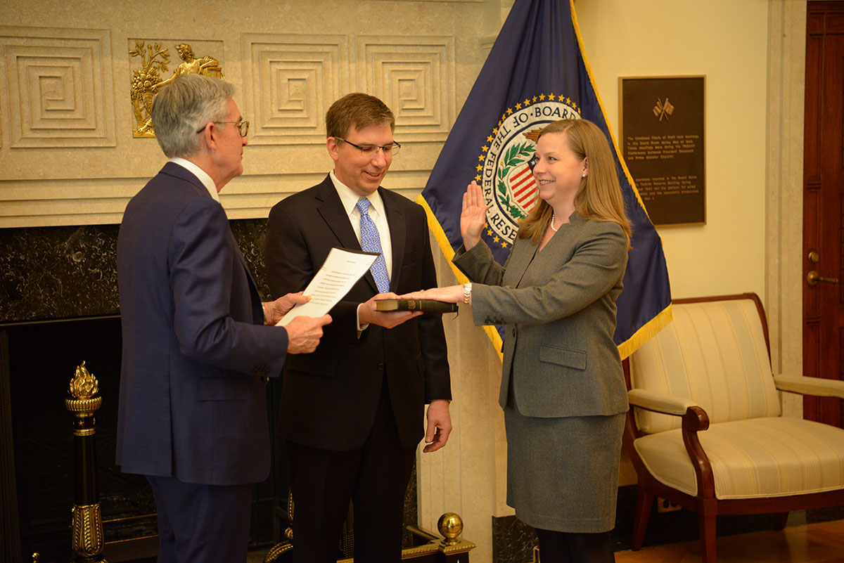 Chair Jerome H. Powell swears in Michelle W. Bowman for her second term, accompanied by Wes Bowman, as a member of the Board of Governors of the Federal Reserve System.